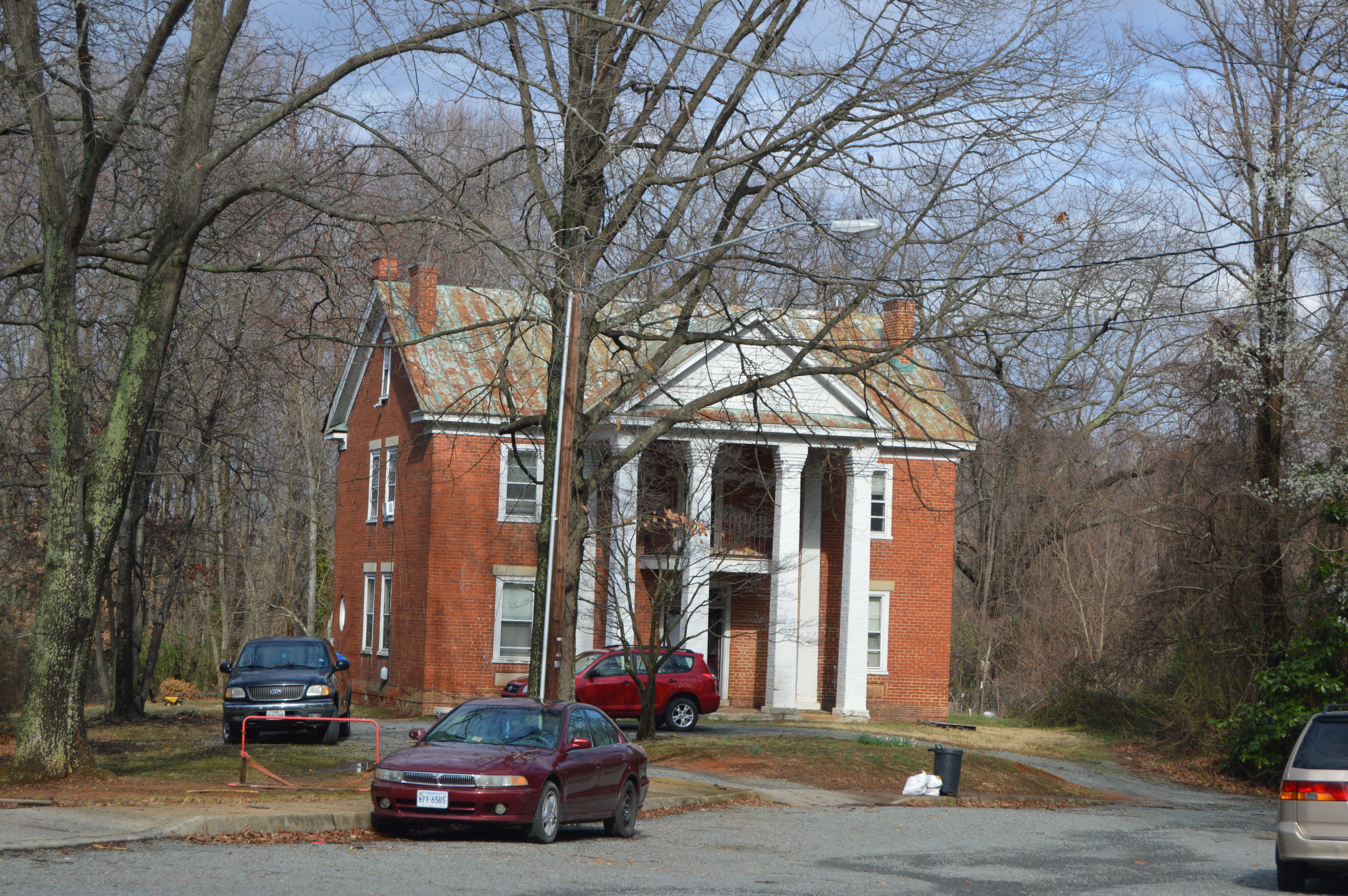 Front and western side of the Robert L. Updike House, located at 620 Prospect Avenue in Charlottesville, Virginia, United States. Built in 1904, it is listed on the National Register of Historic Places.